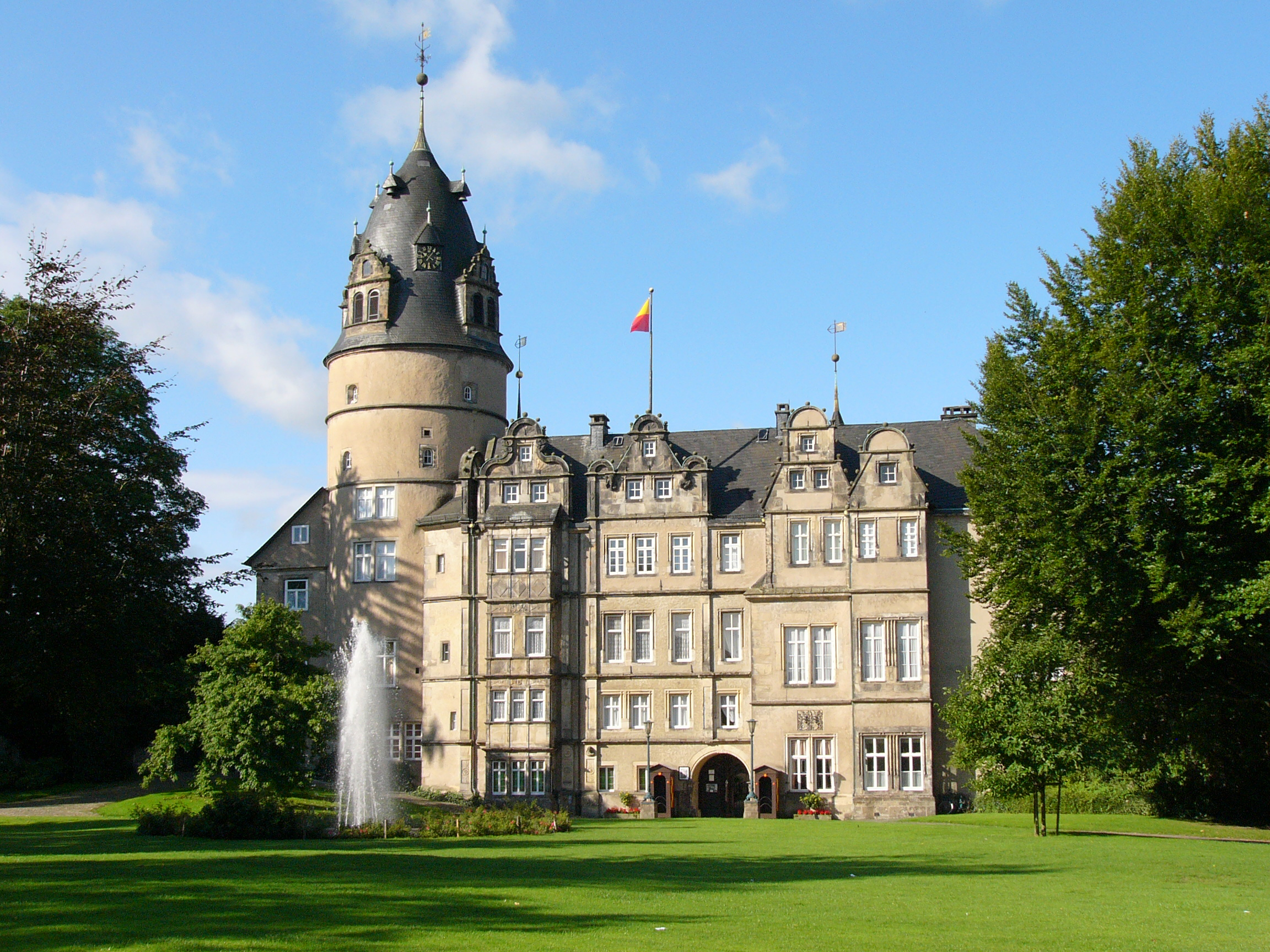 Detmold castle in Detmold, district of Lippe, North Rhine-Westphalia, Germany.